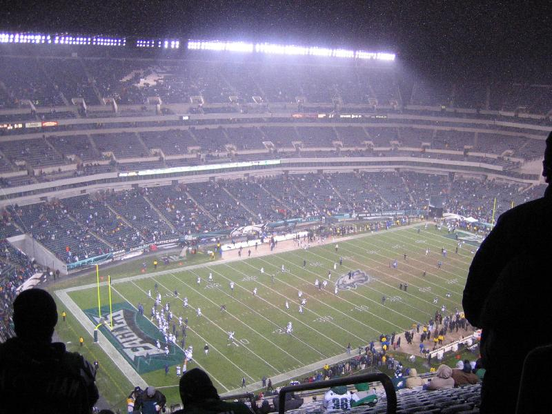 Philadelphia Eagles fans anxiously await as pre game celebrations conclude at a snowy Monday Night Football game against the Seattle Seahawks at Lincoln Financial Field